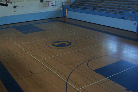 Inside Jefferson's Gymnasium, Picture Taken by Tim Cummings, JHS Webmaster, Spring 2006